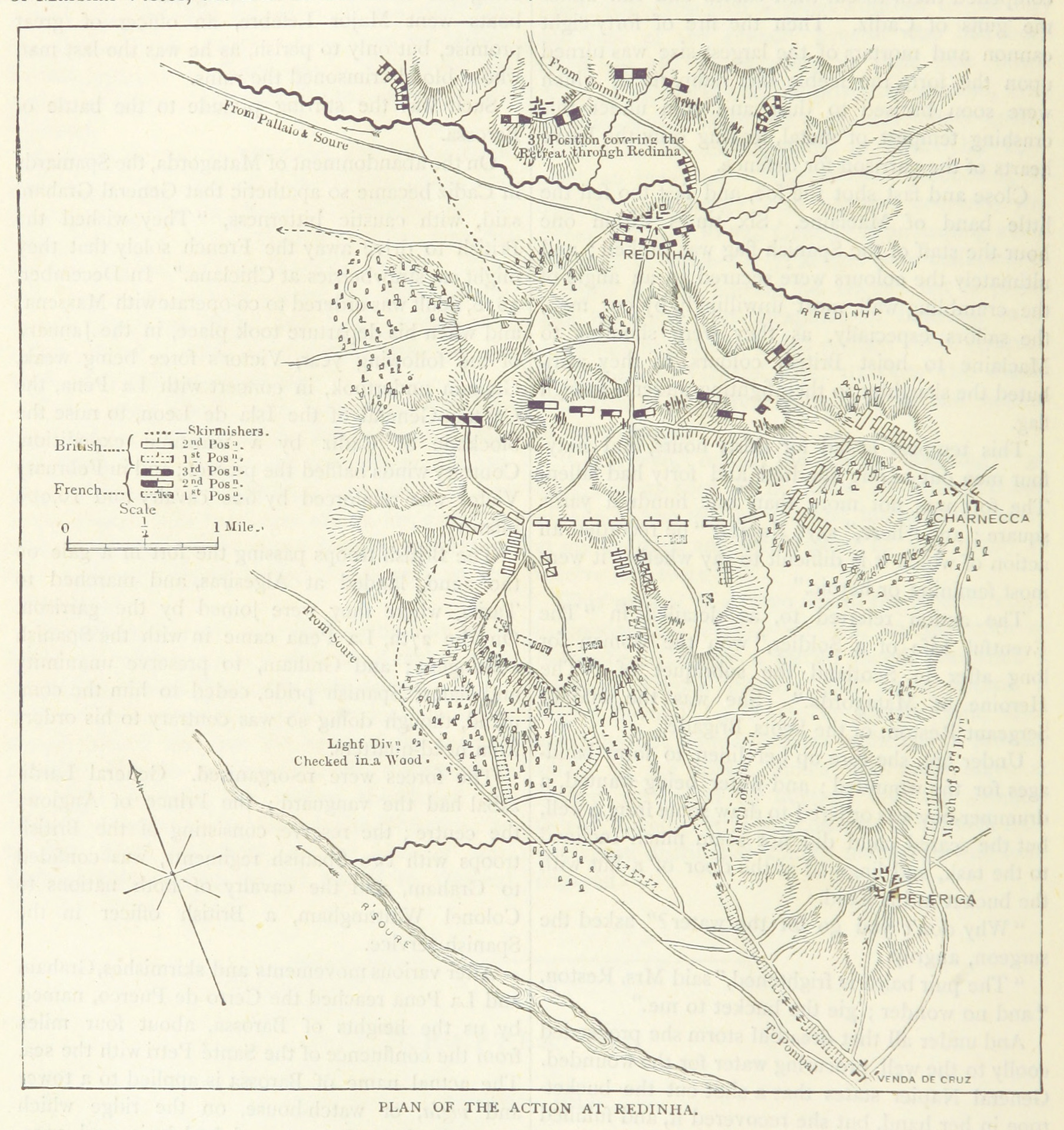 The 1811 Battle of Redinha, a French rearguard action to cover their withdrawal from Portugal.